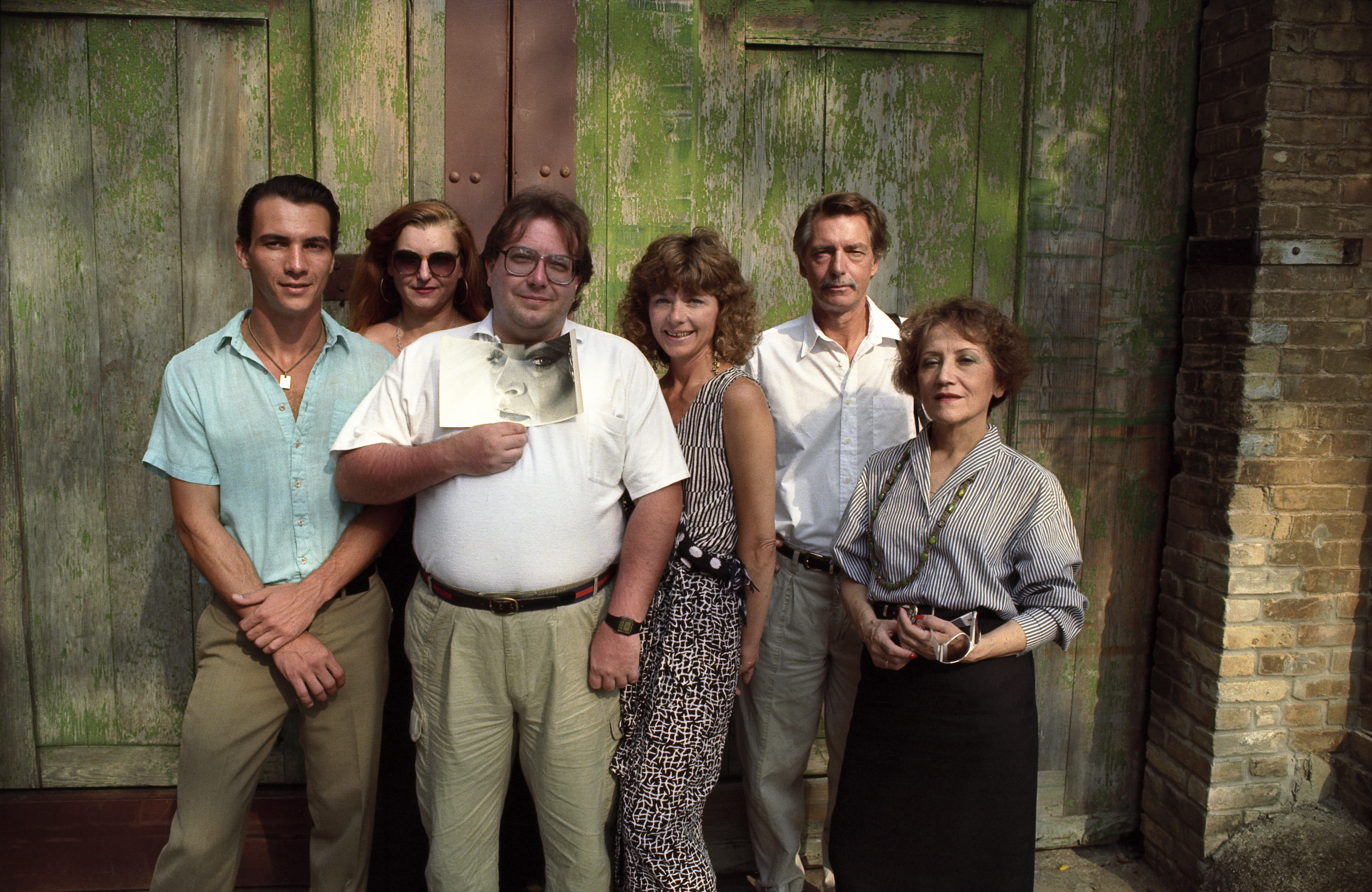 This is a promotional shot for a tape of Austin poetry, "Naked Children - Austin Poets Audio Anthology Project, Volume II." This was a series of productions produced by Hedwig Gorski's Perfection Productions. Left to right: Michael Vecchio, Hedwig Gorski, Phillip T. Stephens, Isabella Russell-Ides, David Wevill, and Cecilia Bustamante. Phillip is holding a photo of Joy Cole who had passed away at the time and included on the tape.